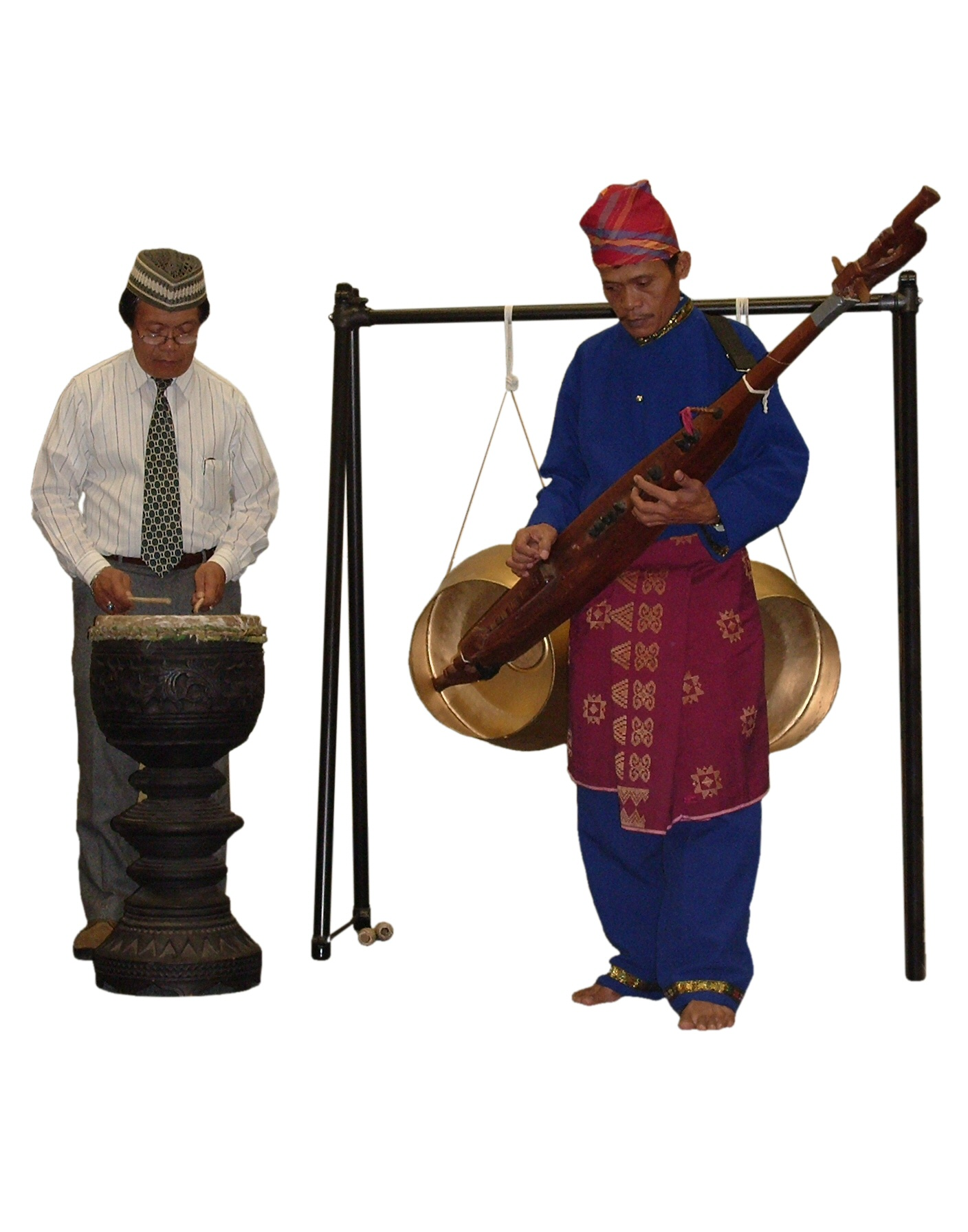 The dabakan is a Philippine, single-headed, drum made of jackfruit/coconut lumber topped with a lizard or goat skin drumhead. It’s the only non-drum instrument of the kulintang ensemble. In this image, a dabakan played by Master Danongan Kalanduyan accompanies the kutiyapi, a Philippine boat-lute, played by Dutuan Kalanduyan.